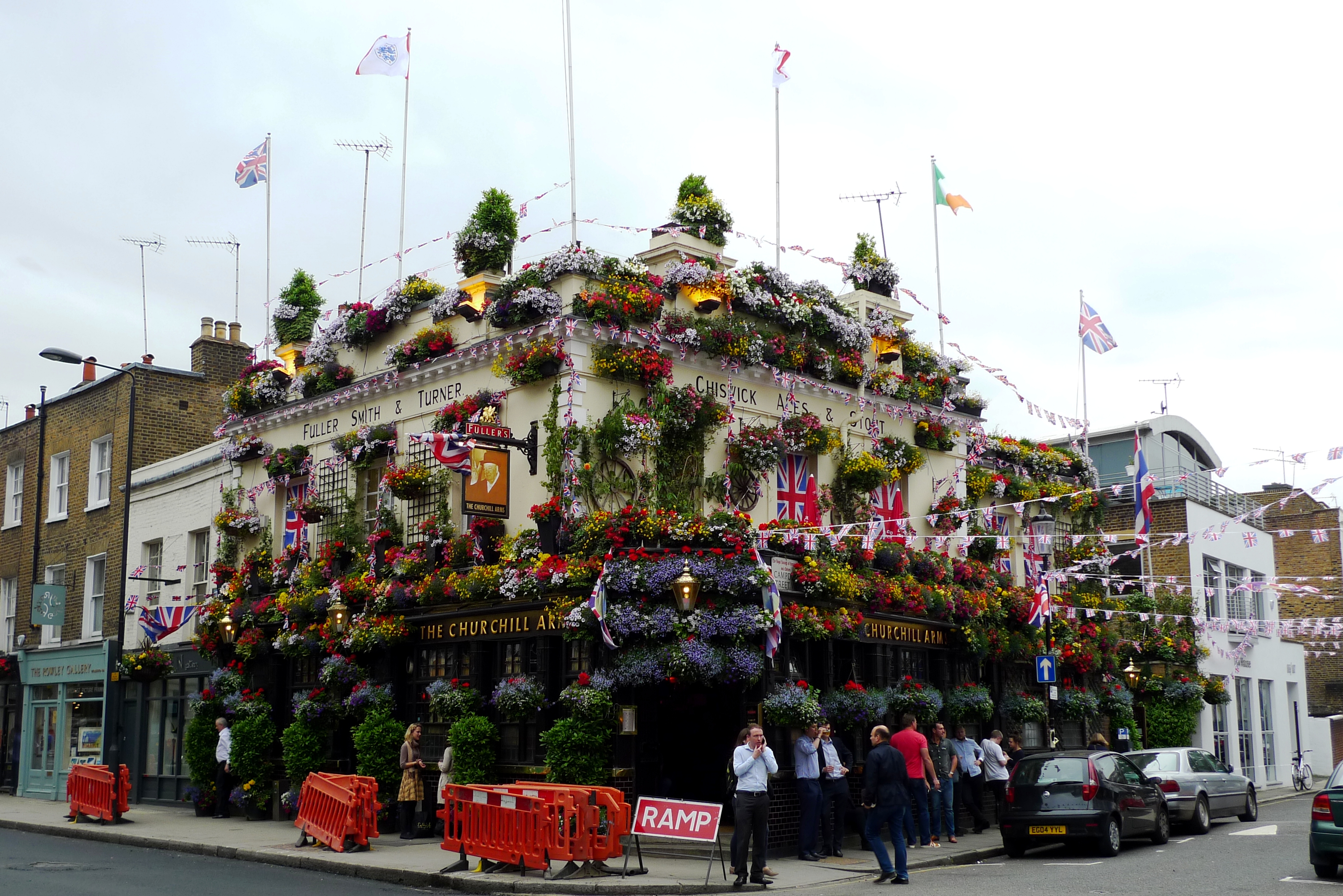 If possible this Fuller's pub is even more gloriously bedecked with flowers and foliage than last time I took a photo of it. It's a pub with a split personality (Irish pub, English name, American paraphernalia, Thai food, and, er, chamber pots hanging from the ceiling). Still, it serves good beer. (Older photo of it.) Address: 119 Kensington Church Street (formerly at Peel Place, Kensington Gravel Pits and Silver Street). Owner: Fuller Smith Turner (website). Links: Randomness Guide to London Fancyapint Pubs Galore Beer in the Evening Qype Dead Pubs (history)